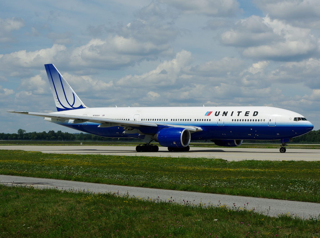 United Airlines B777-200 N768UA